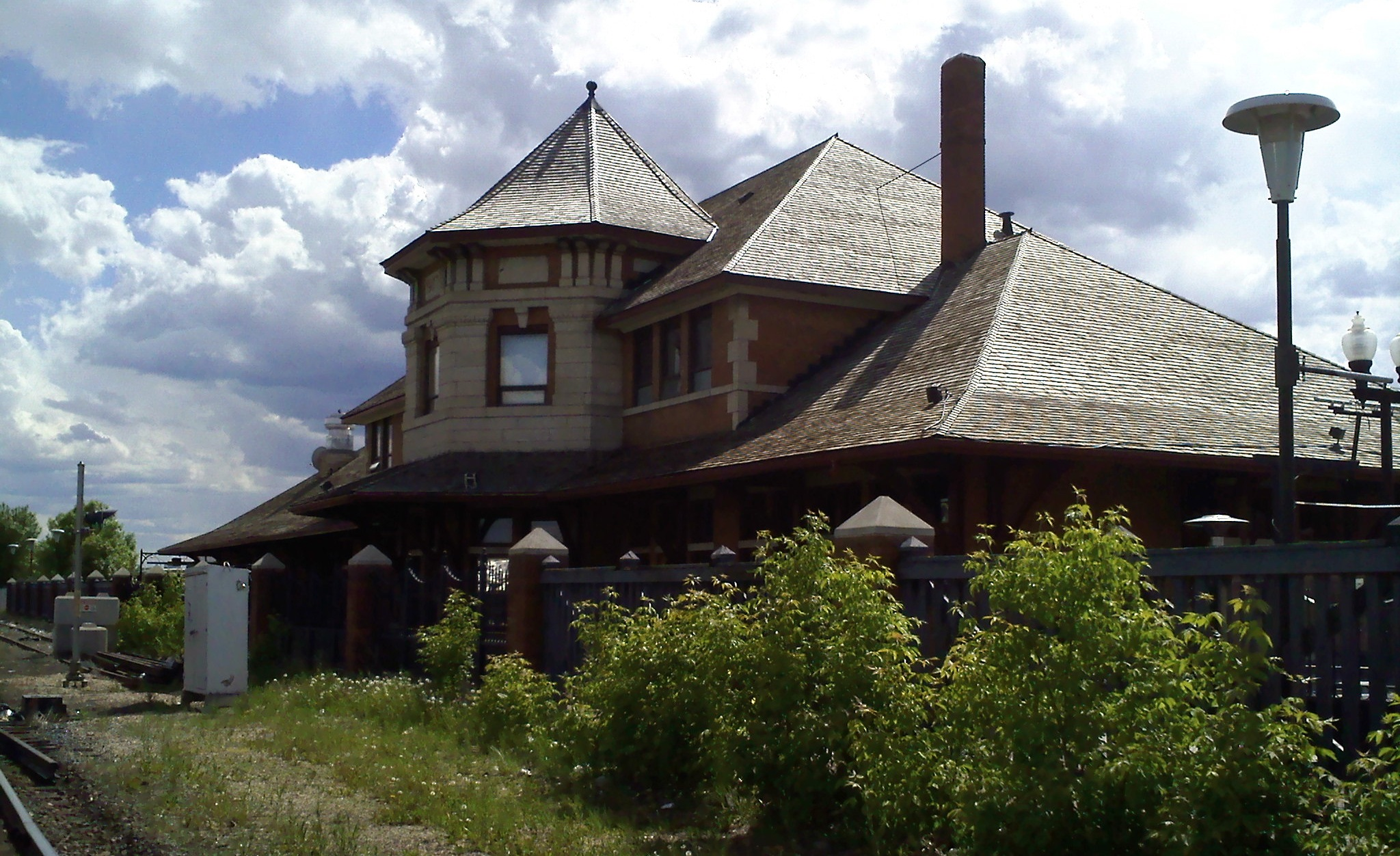 Northeast side of the Strathcona Canadian Pacific Railway Station, from abandoned tracks south of Whyte Avenue.